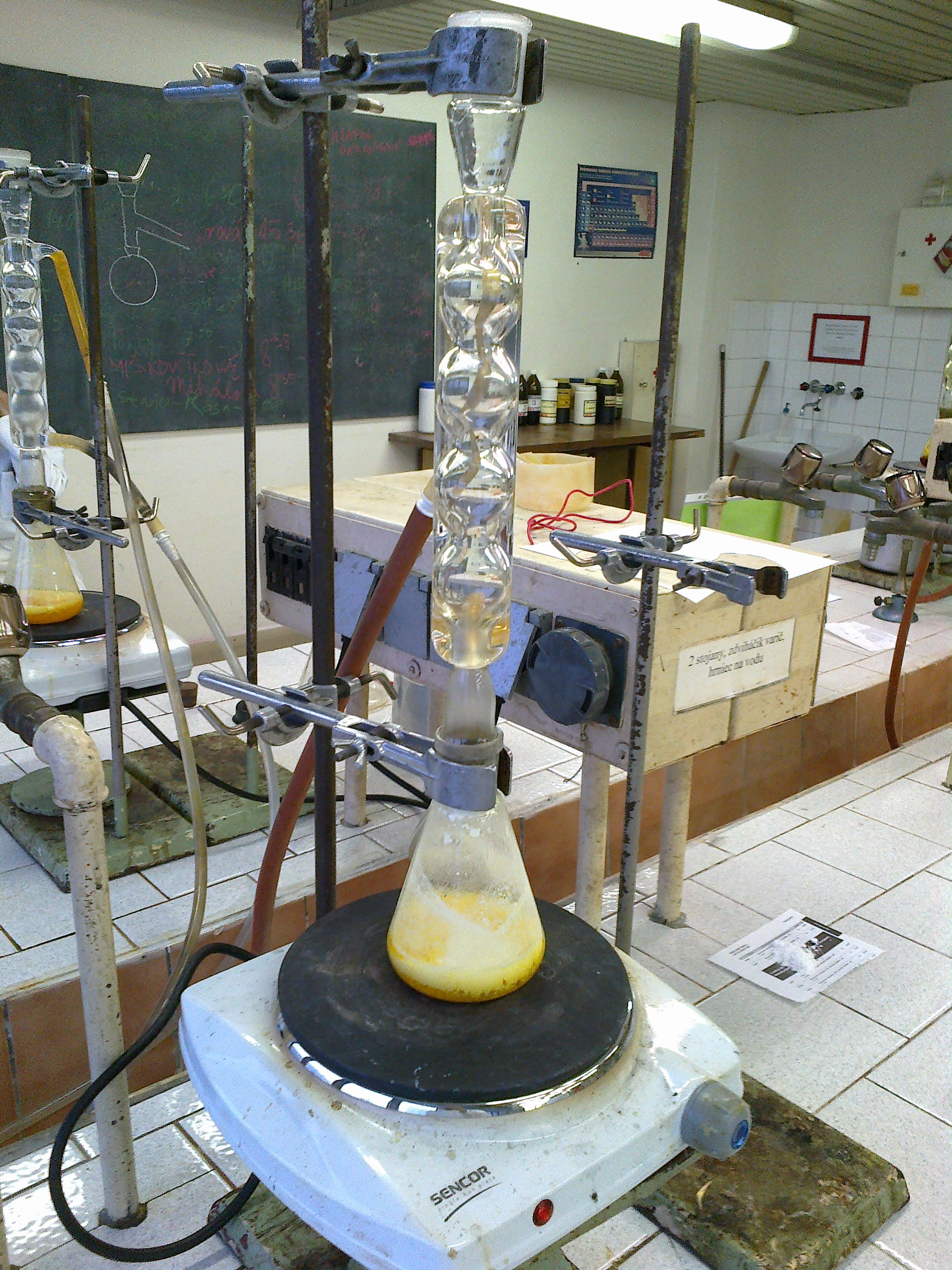 Deacylation of Nitroacetanilide. Photo taken at Slovak University of Technology.